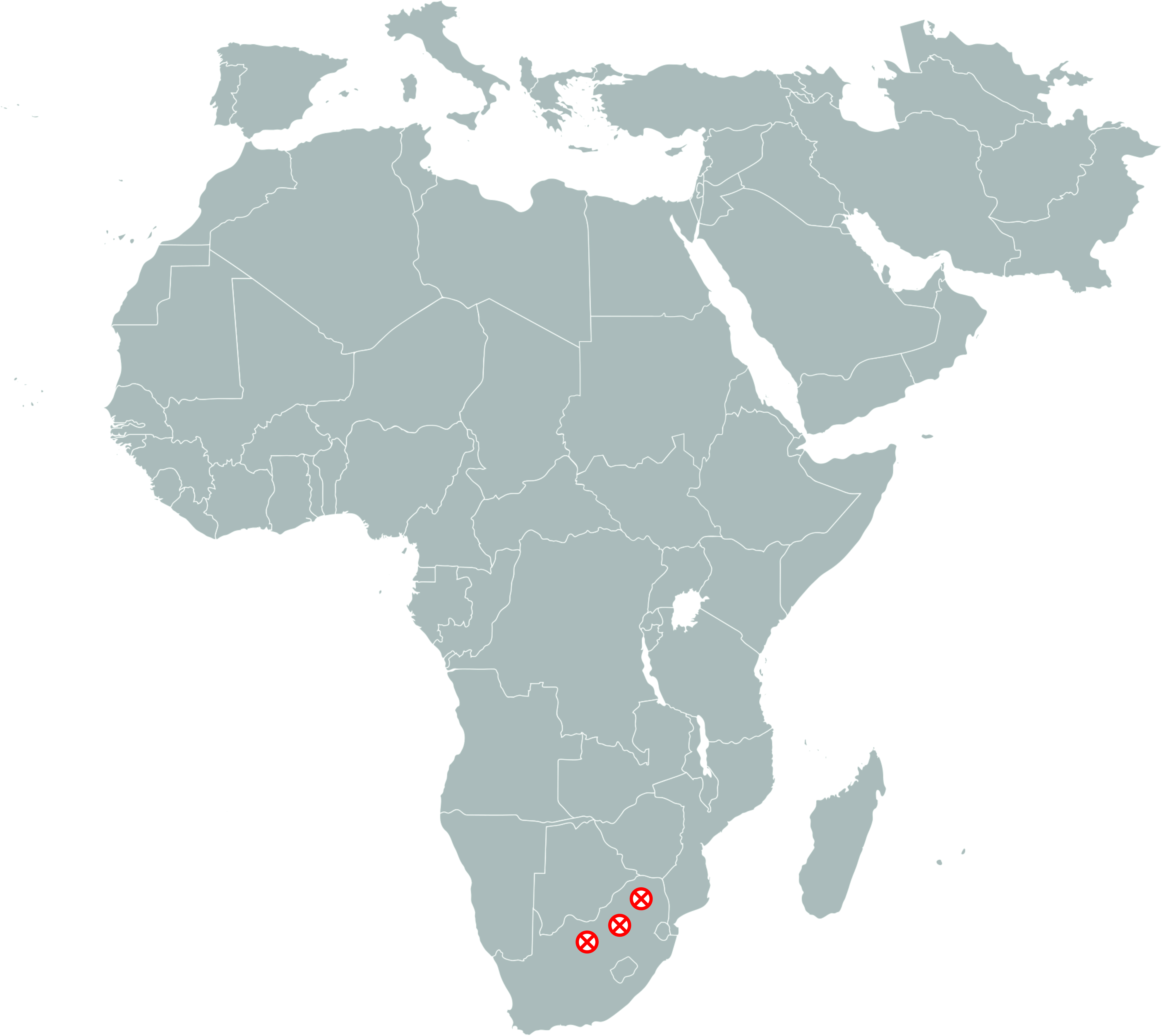 Australopithecus africanus paleoanthropological sites in South Africa (Taung, Sterkfontein, Gladysvale, Makapansgat)